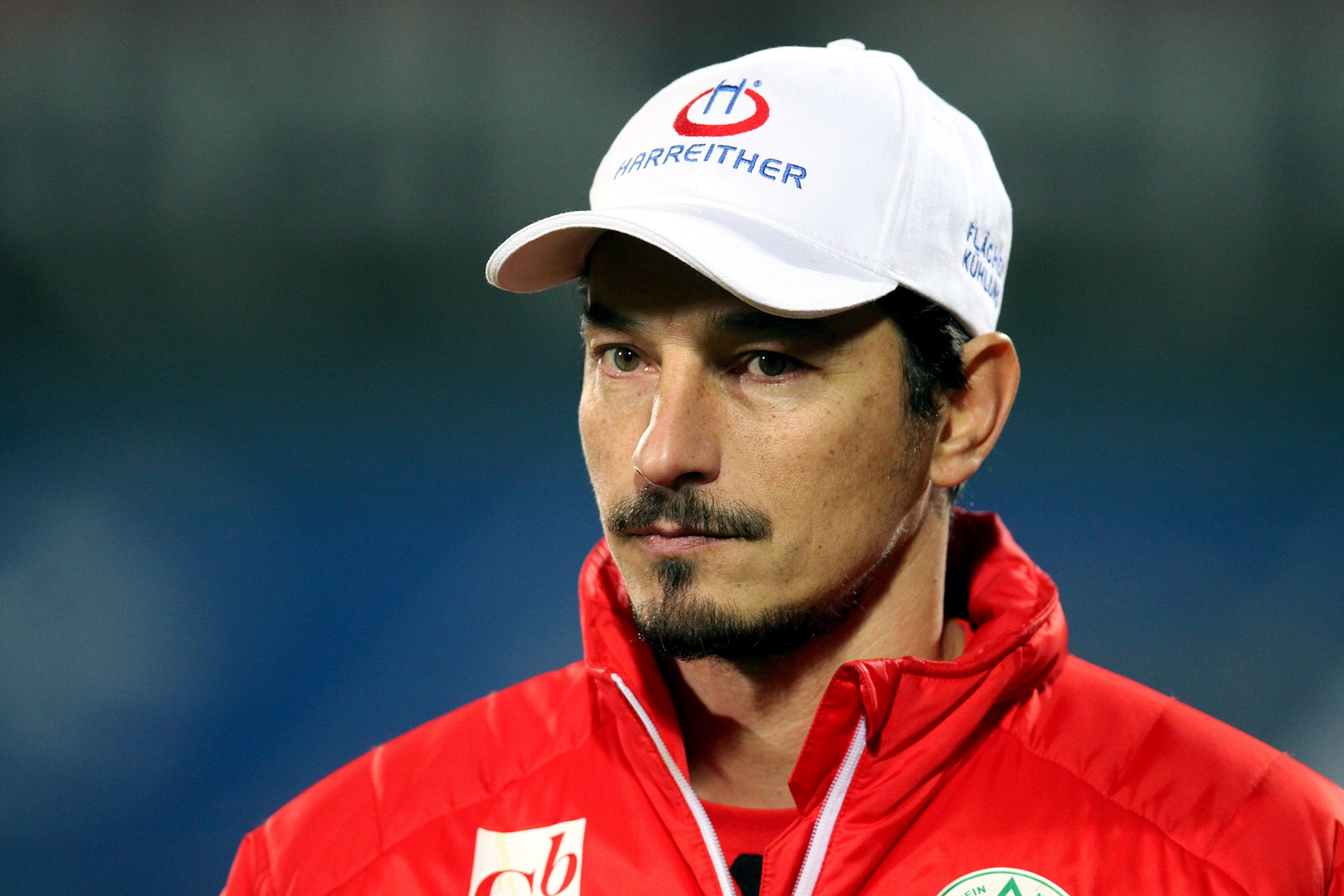 Match of the Austrian Football Bundesliga – FC Admira Wacker Mödling (red shirts) vs. SV Mattersburg (green-white shirts) 1-1 (1-1) on 2015-12-12 in Bundesstadion Sudstadt – The photo shows Ivica Vastić, headcoach of SV Mattersburg.